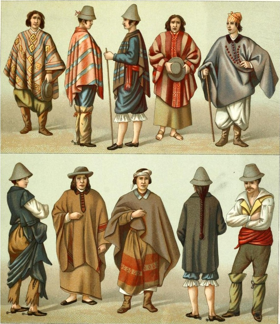 Chile, Araucanian Indians and gauchos.